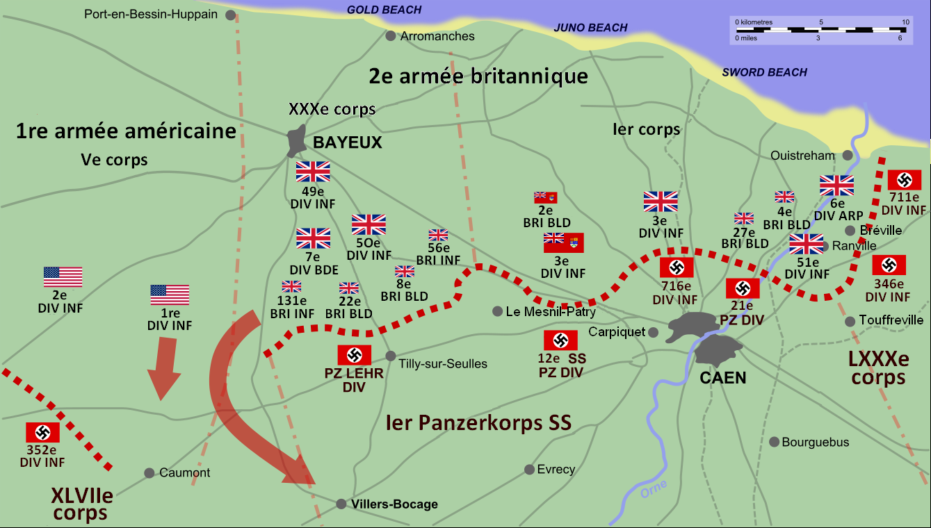 Allied and Axis dispositions on 12 June 1944 before Caen, Normandy. US pressure on the German 352nd Infantry Division forced a withdrawal which opened up a gap in the German line. This was exploited by the British, who attempted to flank the Panzerlehrdivision leading to the Battle of Villers-Bocage